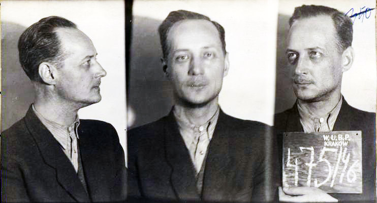 Franciszek Niepokólczycki (1900-1974) - Colonel of the Polish Army, soldier of the Polish Home Army (AK) and the anti-communist organization Freedom and Independence (WiN)